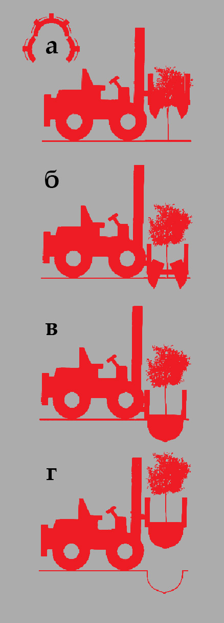 Tree lifting with tree spade machine